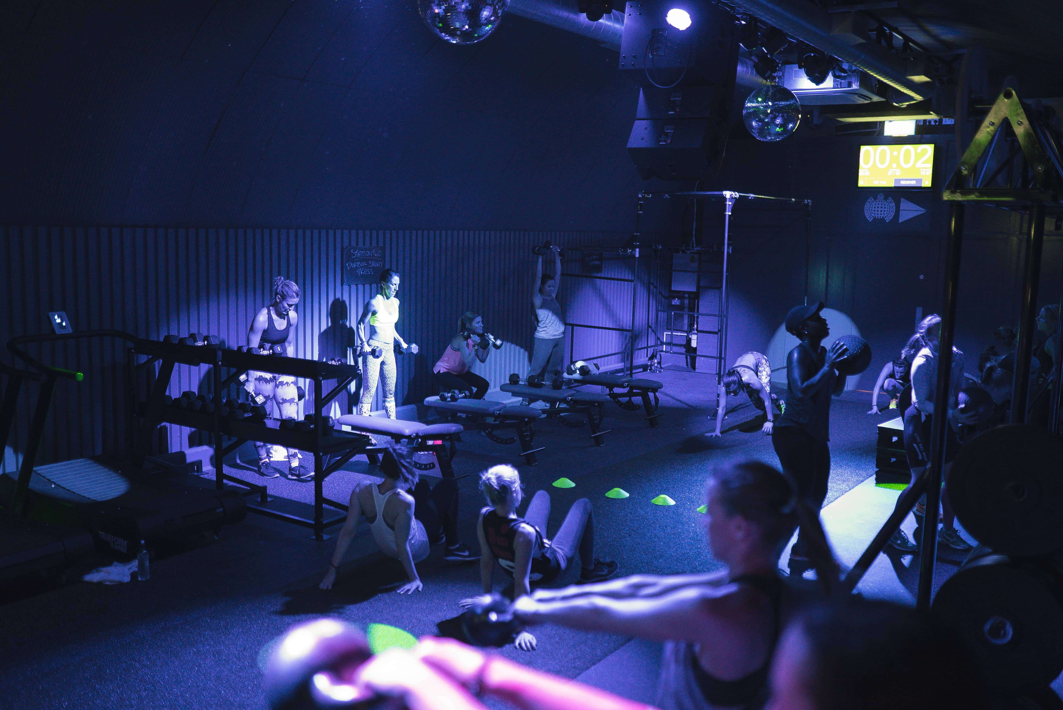 A busy class at The Arches